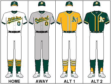 Sports uniform of the Oakland Athletics. Trademark of MLB Properties.